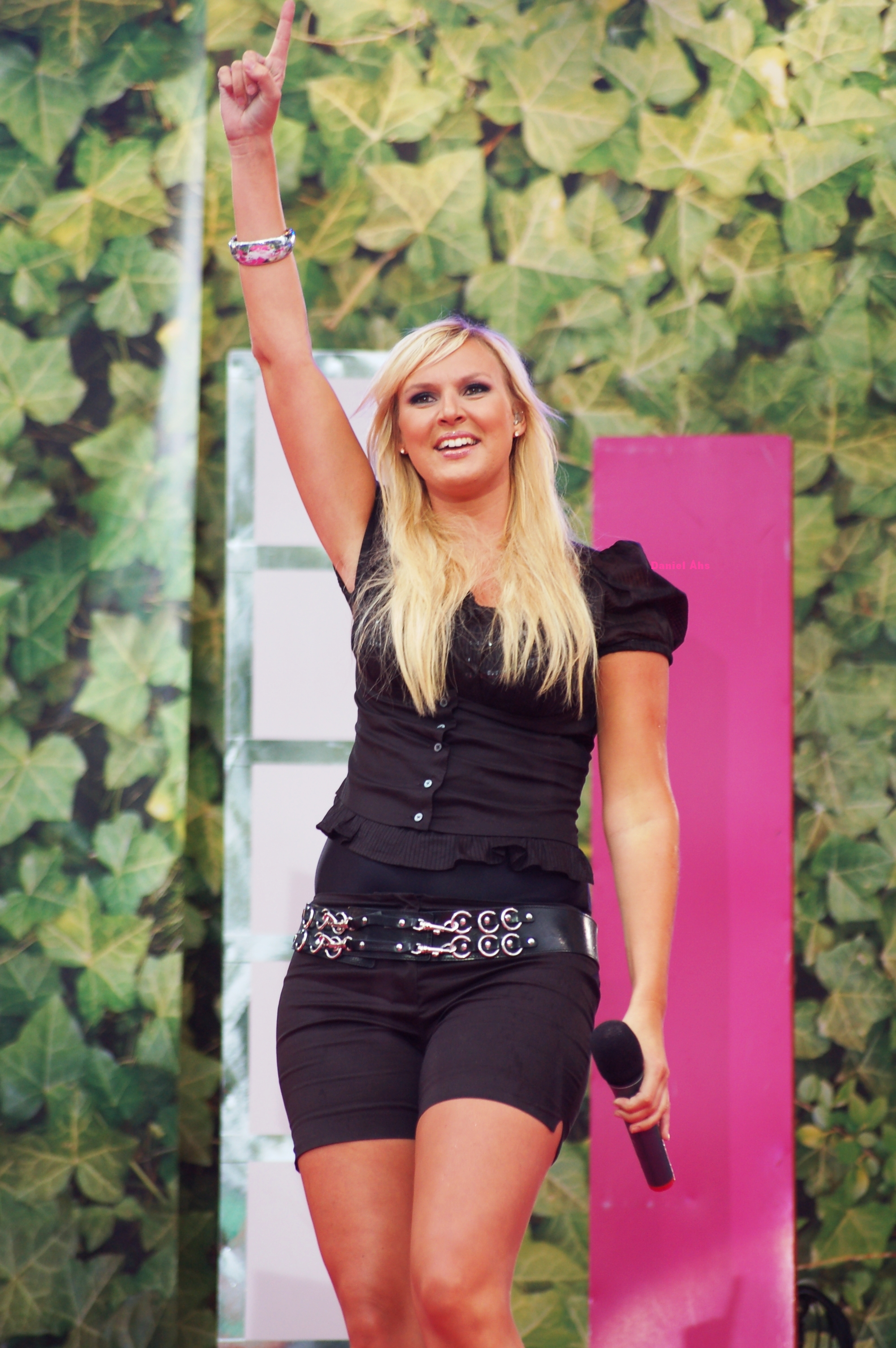 Sanna Nielsen på Gröna Lund, Sommarkrysset. 2008